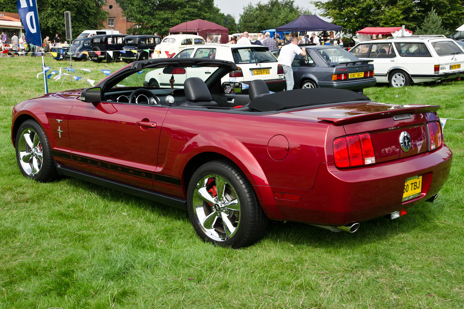 Capesthorne Hall Classic Car Show 25/08/2013